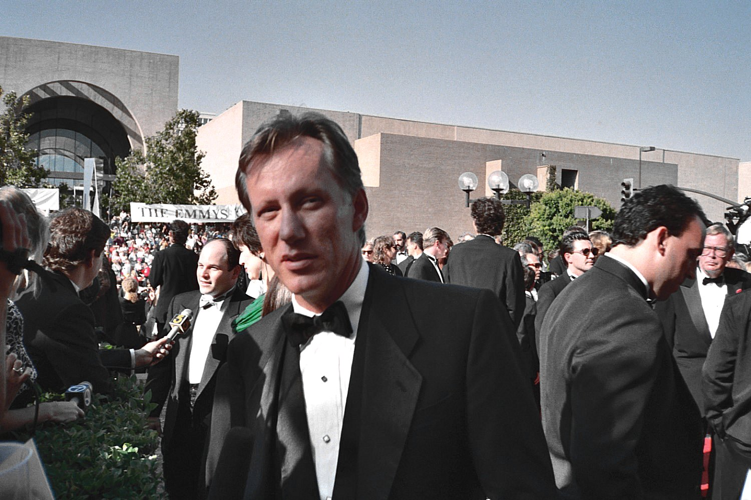 1992 Emmy Awards NOTE: Permission granted to copy, publish, broadcast or post any of my photos, but please credit "photo by Alan Light" if you can. Thanks. Scanned from the original 35MM film negative.